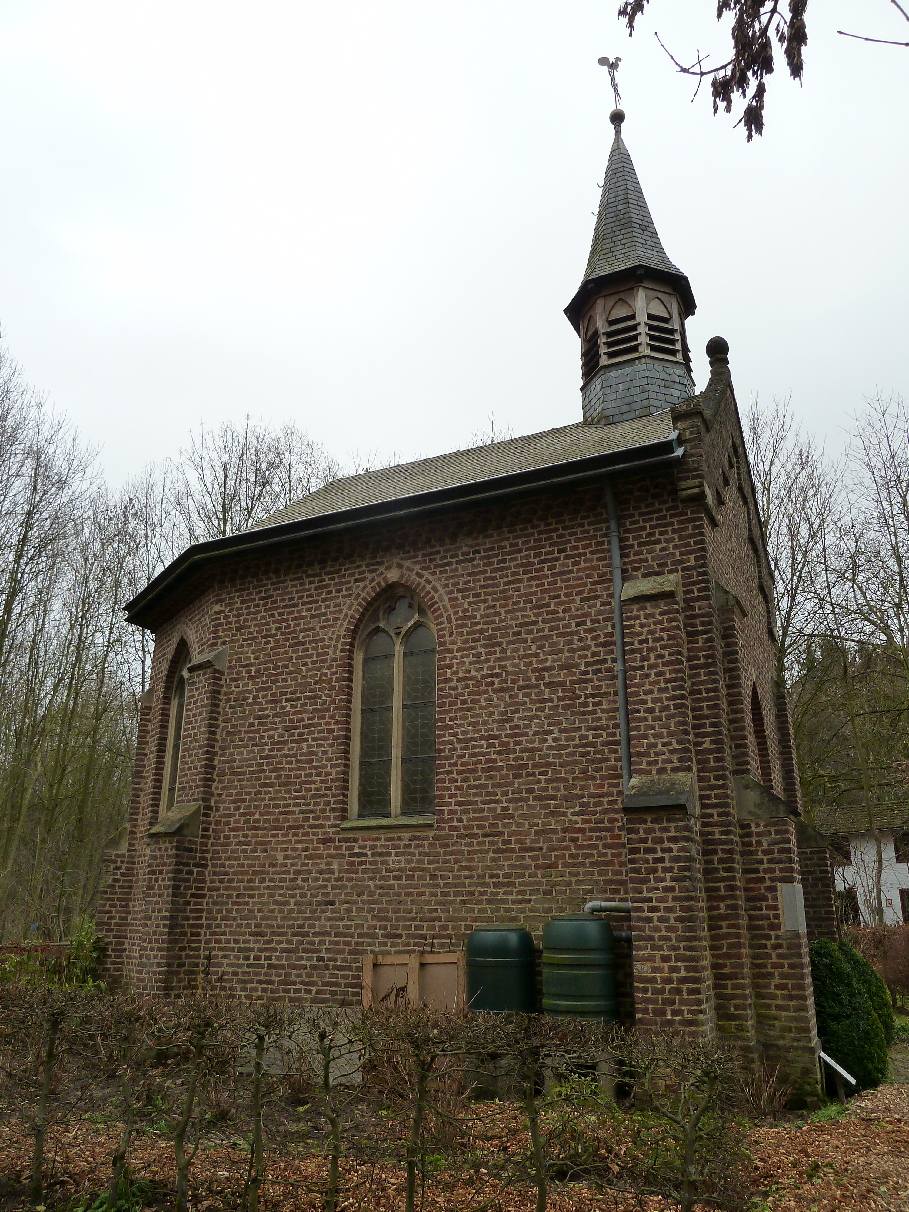 Sint-Annakapel, Spaubeek, Limburg, the Netherlands